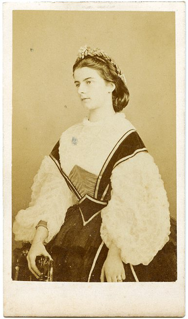 Fratelli D'Alessandri: Maria Sofia of Bavaria, queen of Naples (1841-1925).